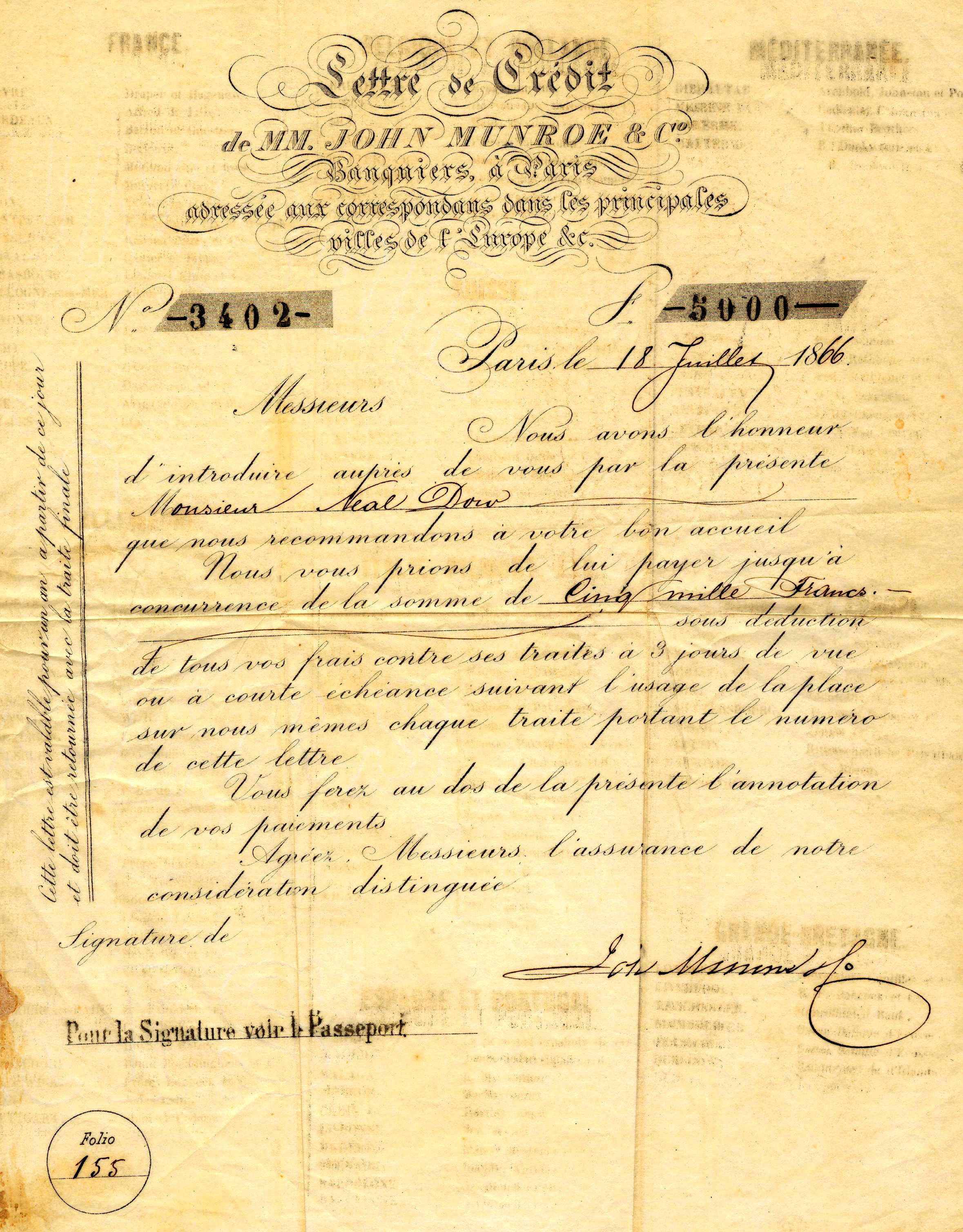 Circular letter of credit emitted by John Munroe and Co